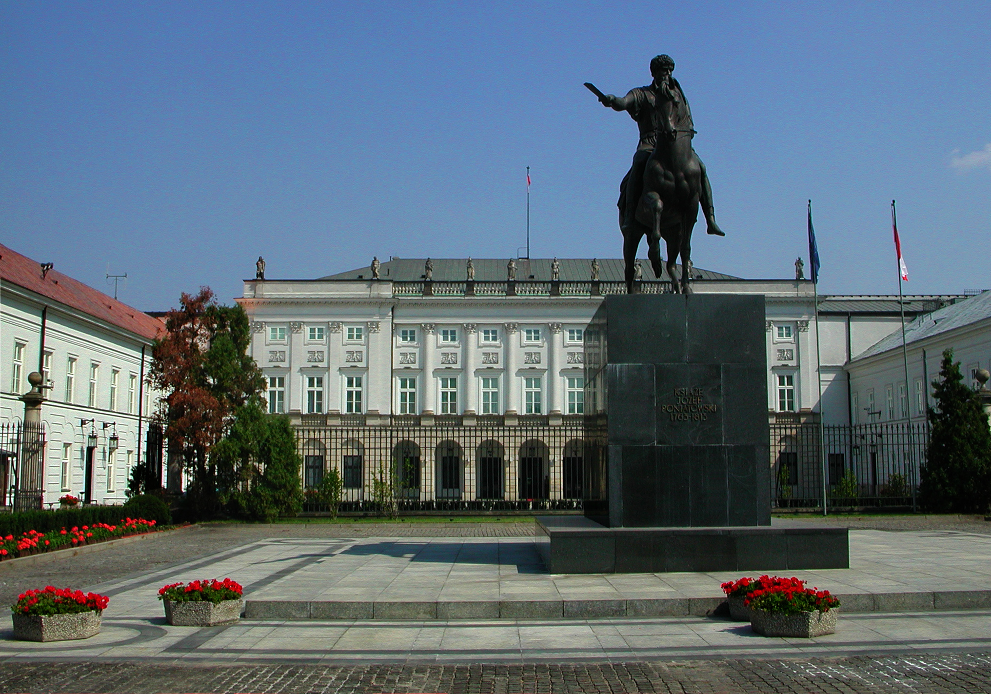 President's Residence, former Governor's Palace, Krakowskie Przedmieście St. Warsaw Poland